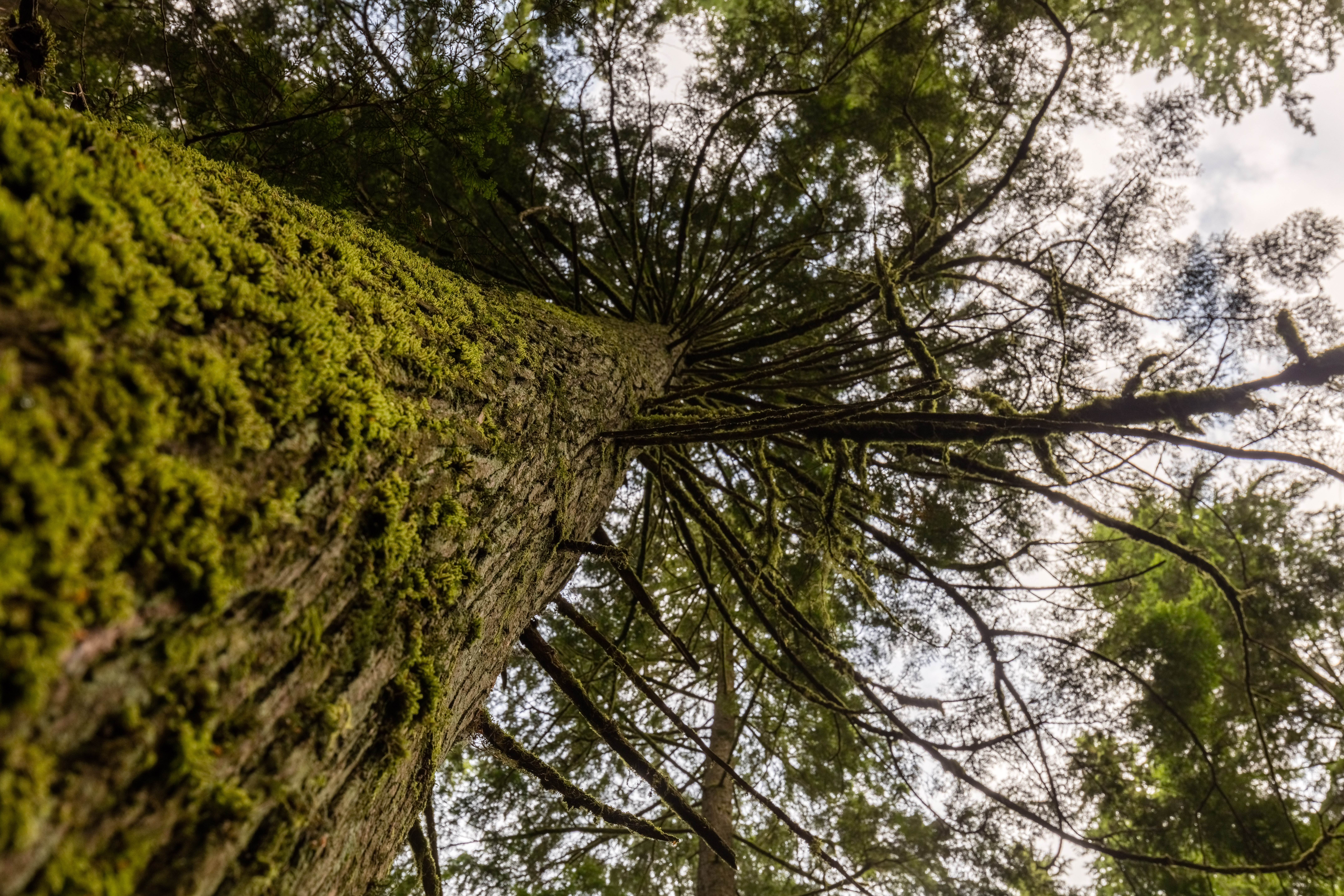 Lynn Canyon Park, Vancouver, Canada